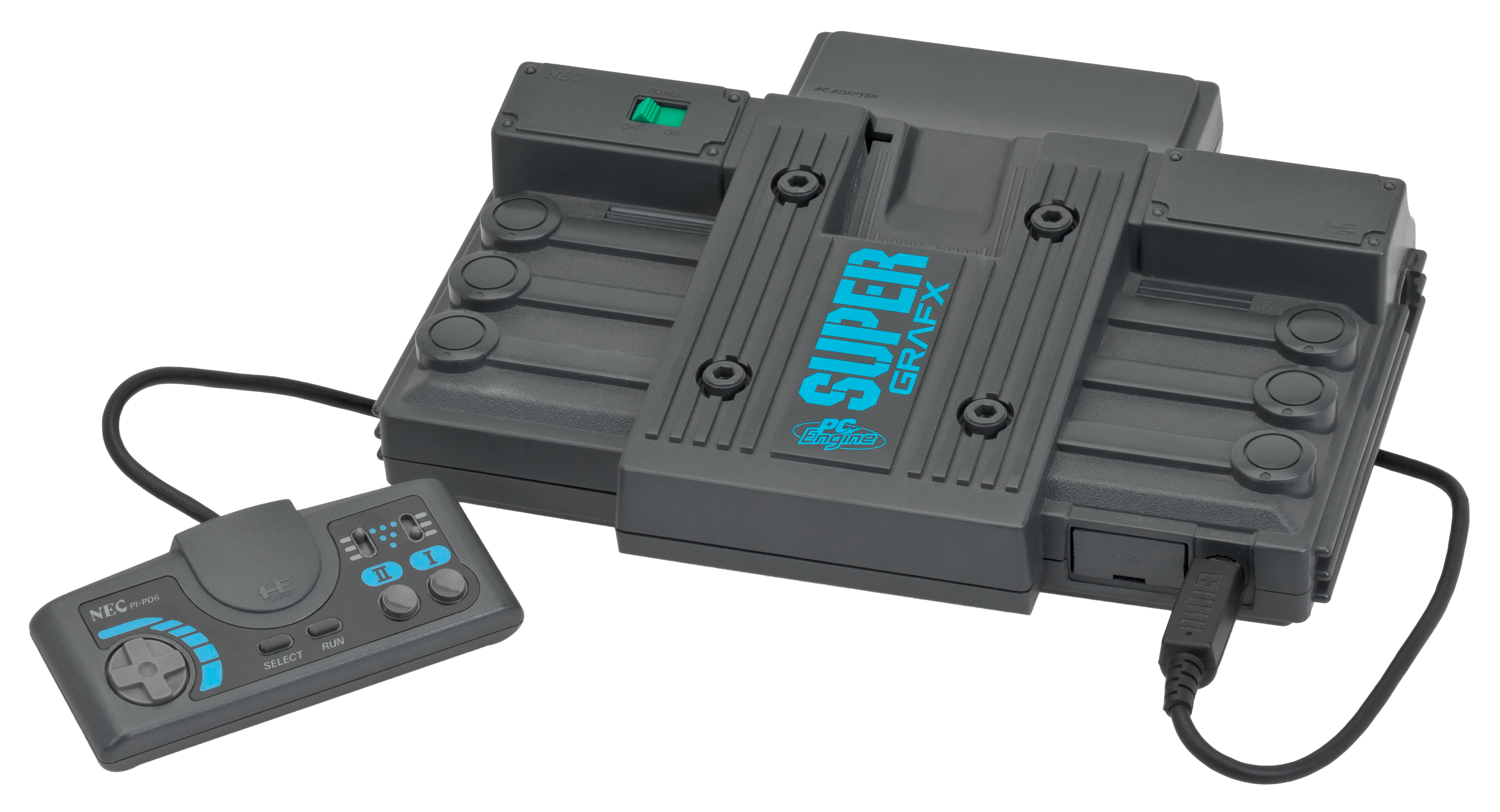 The SuperGrafx, an upgraded version of the PC Engine, that was released in Japan in 1989.